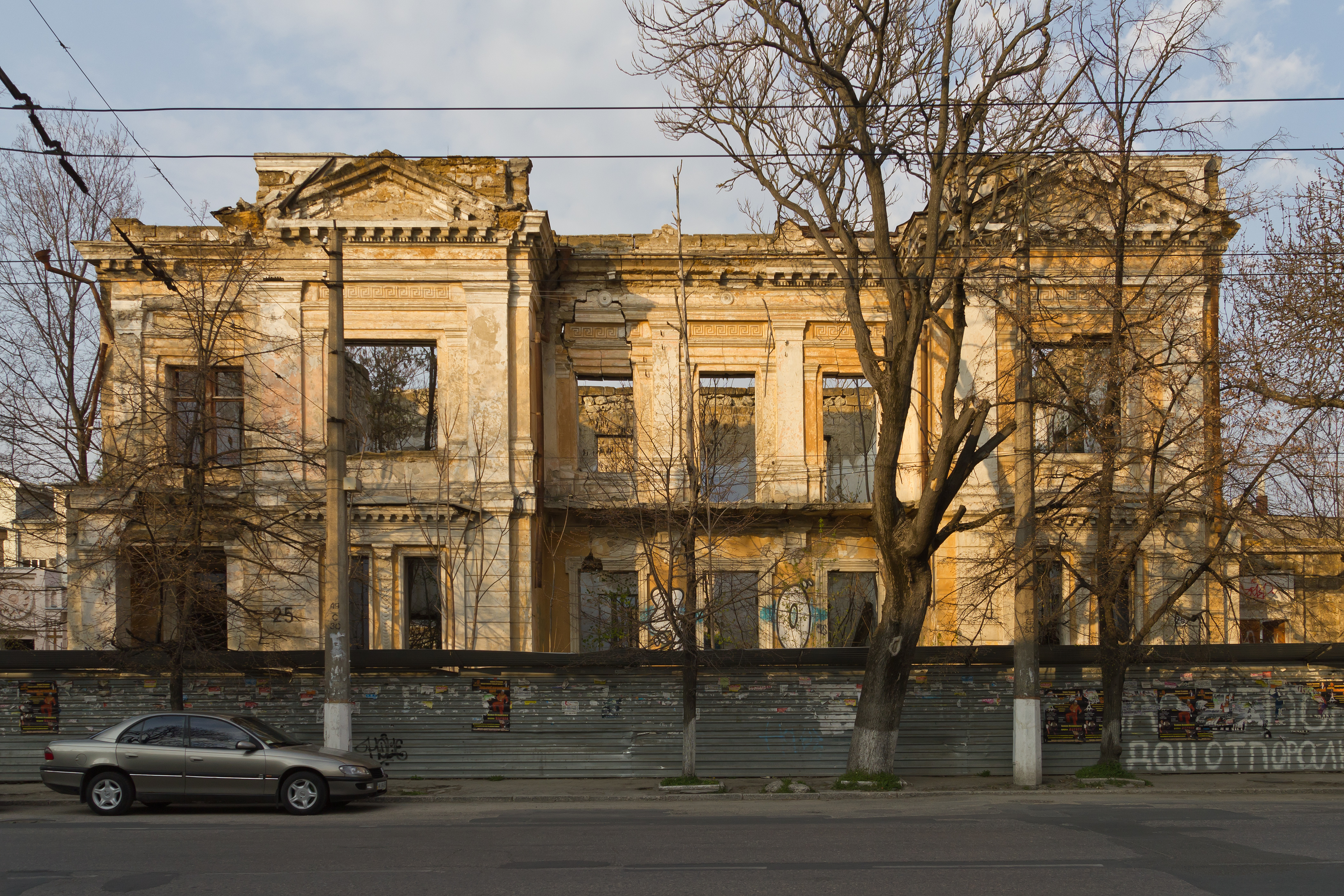 Ruins of an old building (Arendt House) in Simferopol, Crimean Peninsula.